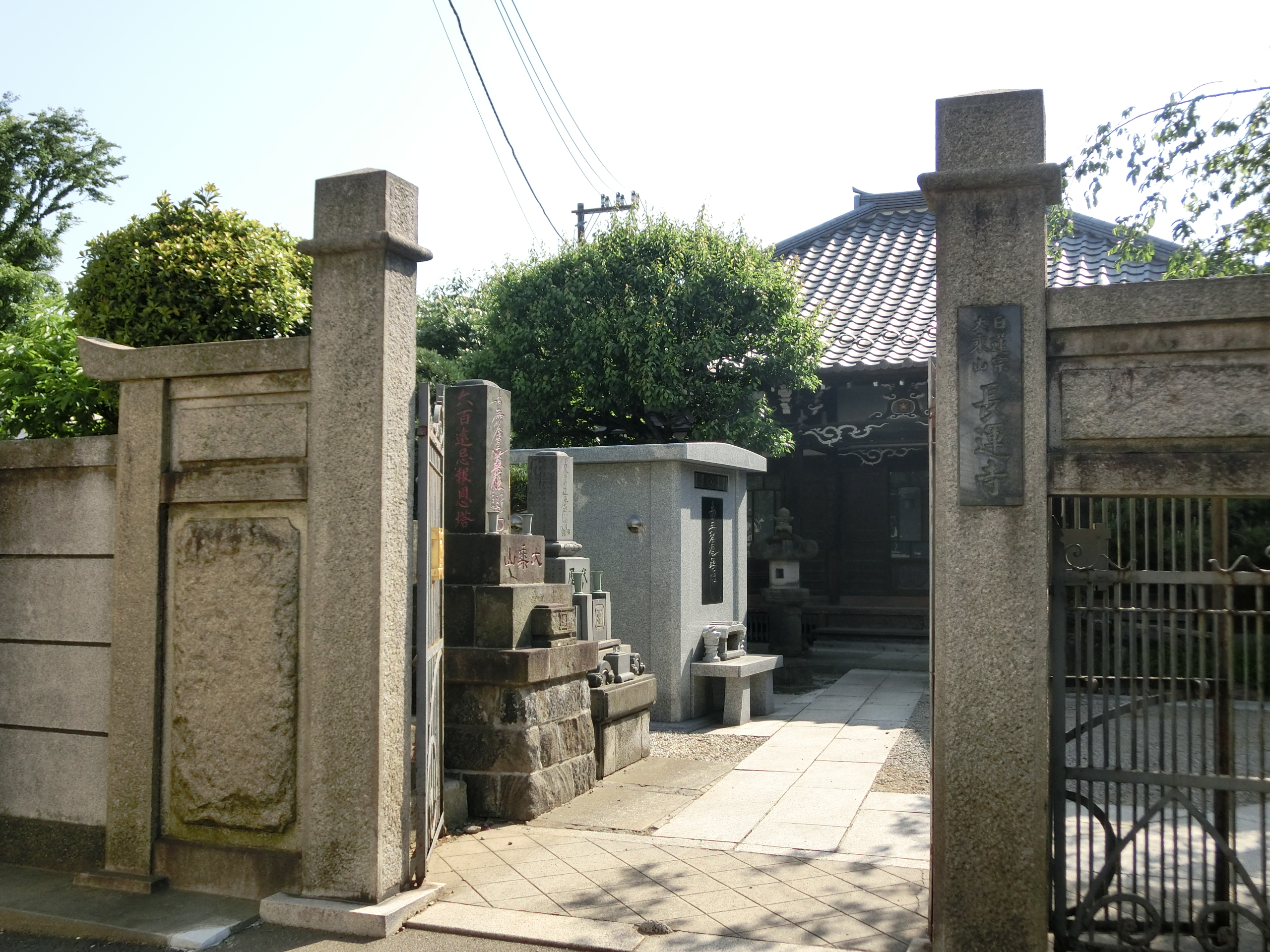 Choun-ji (Taito)